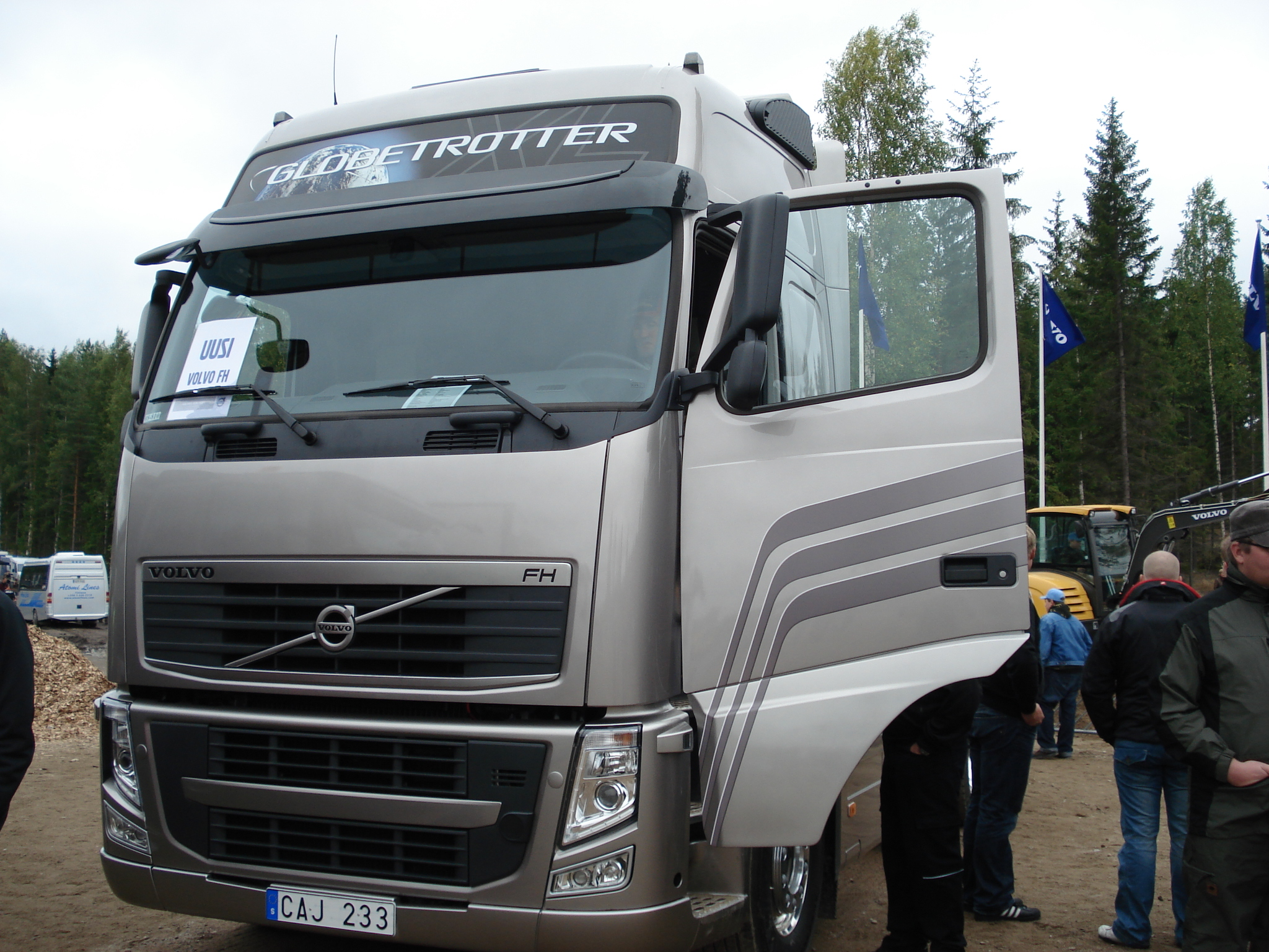 New Volvo FH